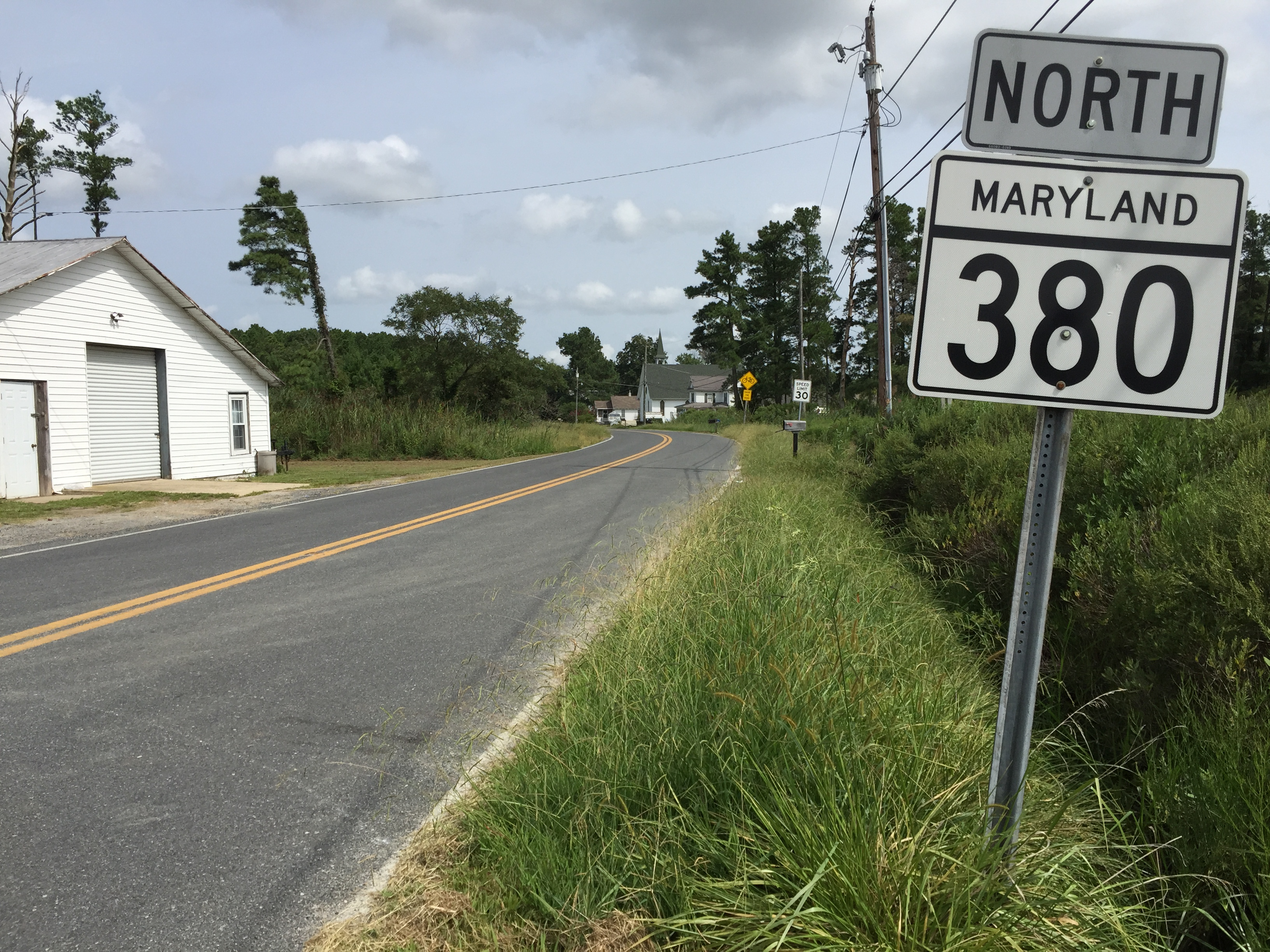 View north along Maryland State Route 380 (Lawsonia Road) at Ape Hole Road in Byrdtown, Somerset County, Maryland